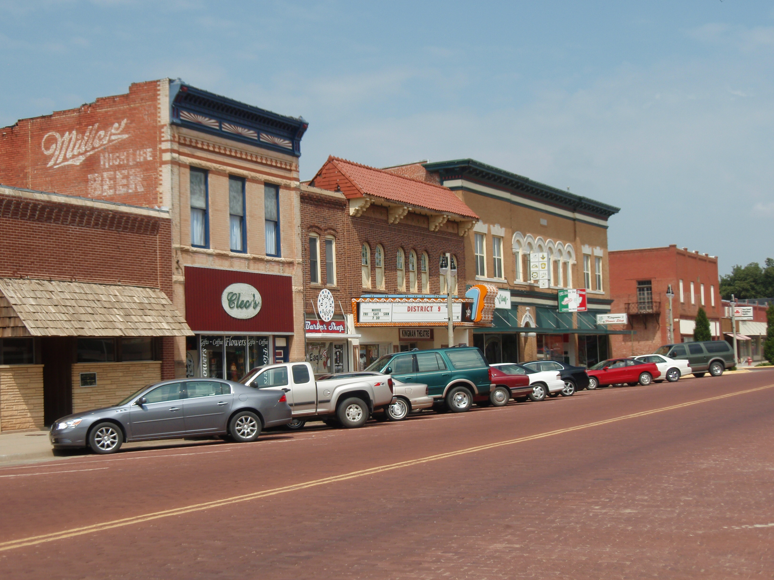 Business District in Kingman, Kansas